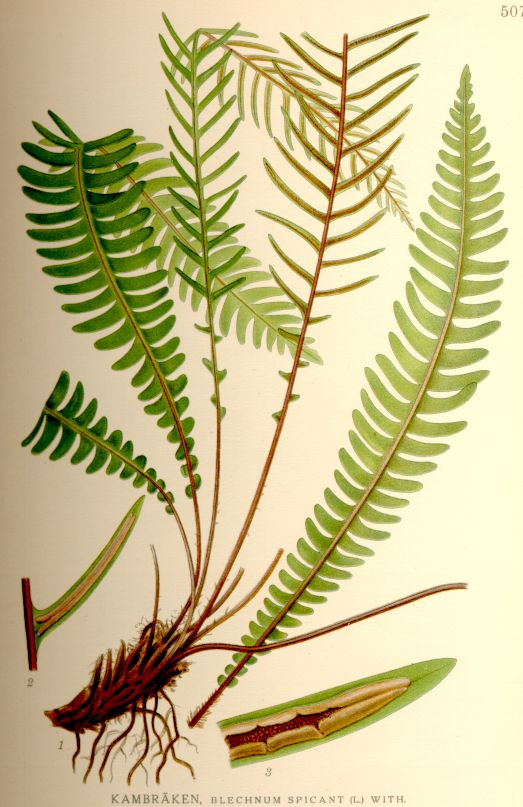 Blechnum spicant